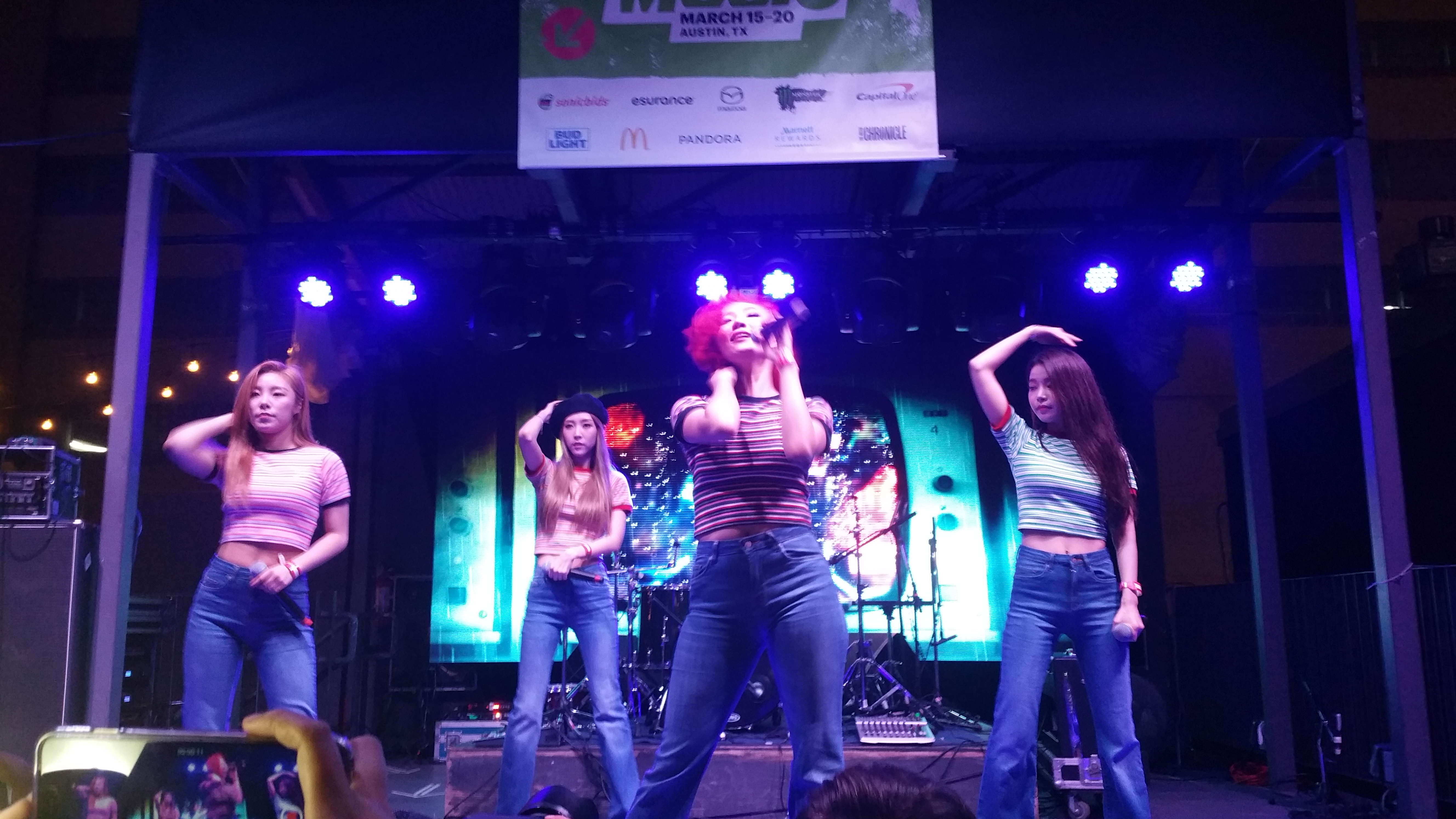 KPNO SXSW 2016, The Belmont, Austin, Texas, (Mamamoo).